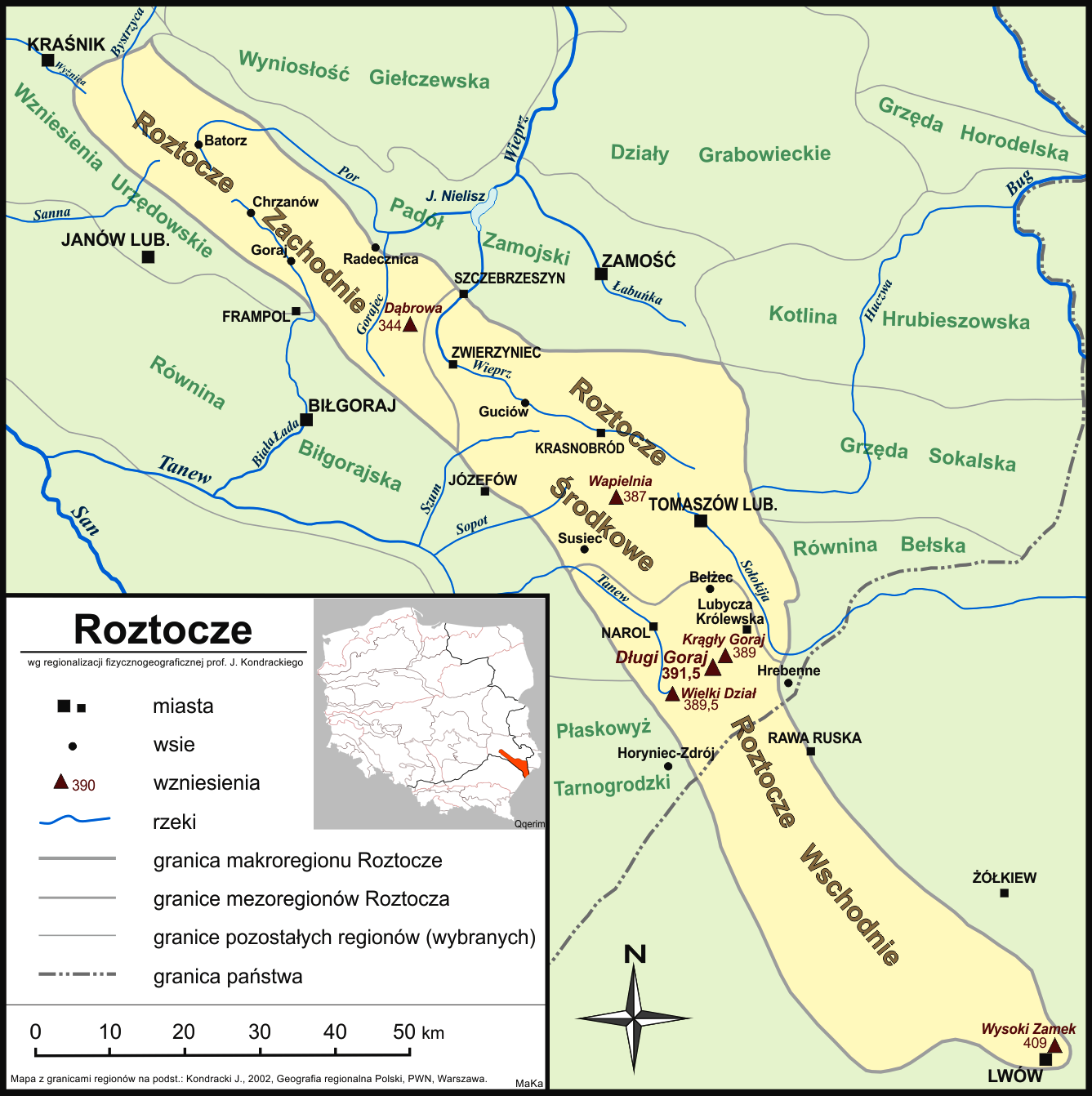 Map of Roztocze region, Poland/Ukraine